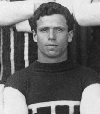 A close up photo of Harold Oliver from the 1914 team photo.